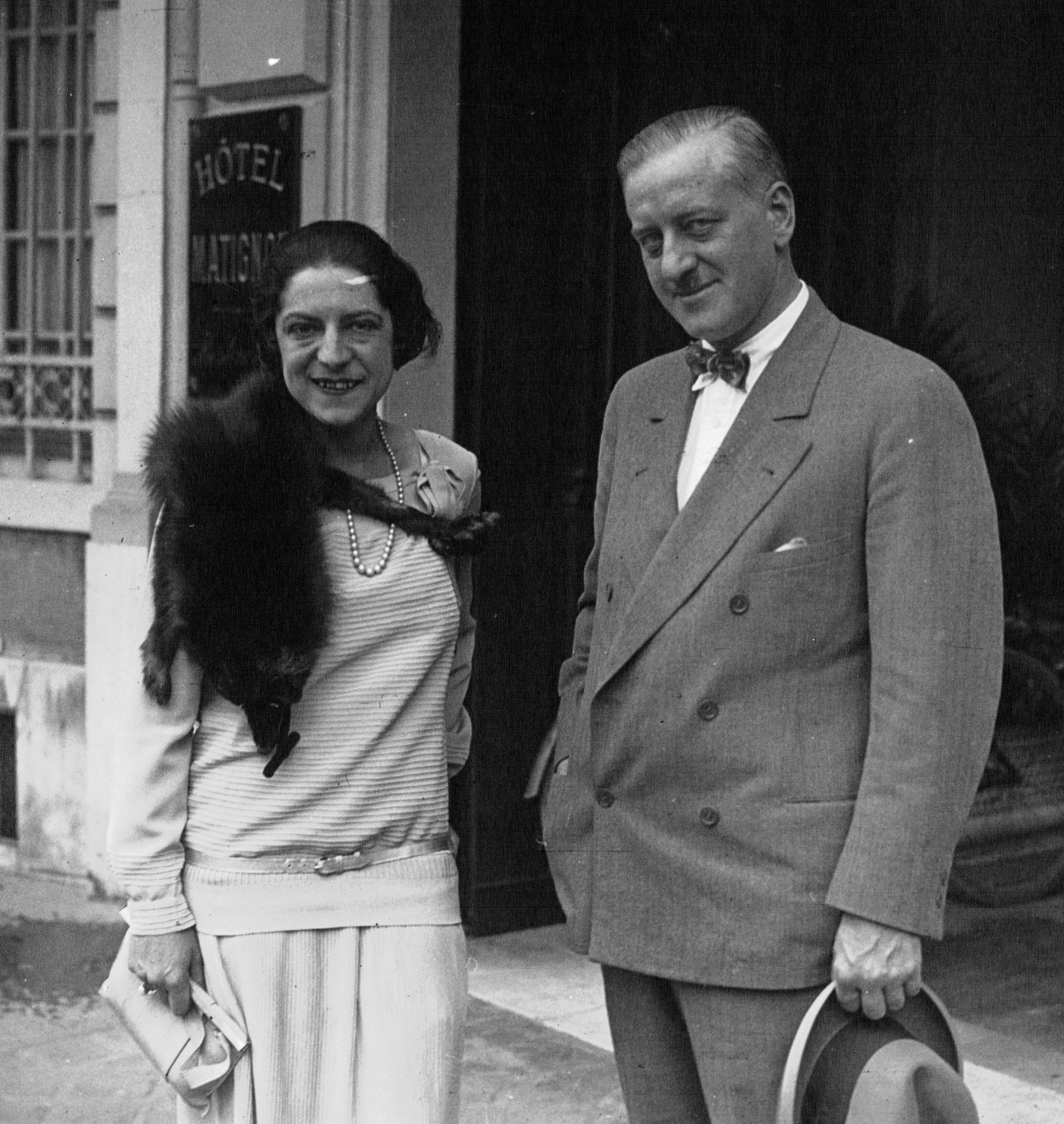 French tennis player Suzanne Lenglen with her manager Charles C. Pyle (1882-1939) in 1926.